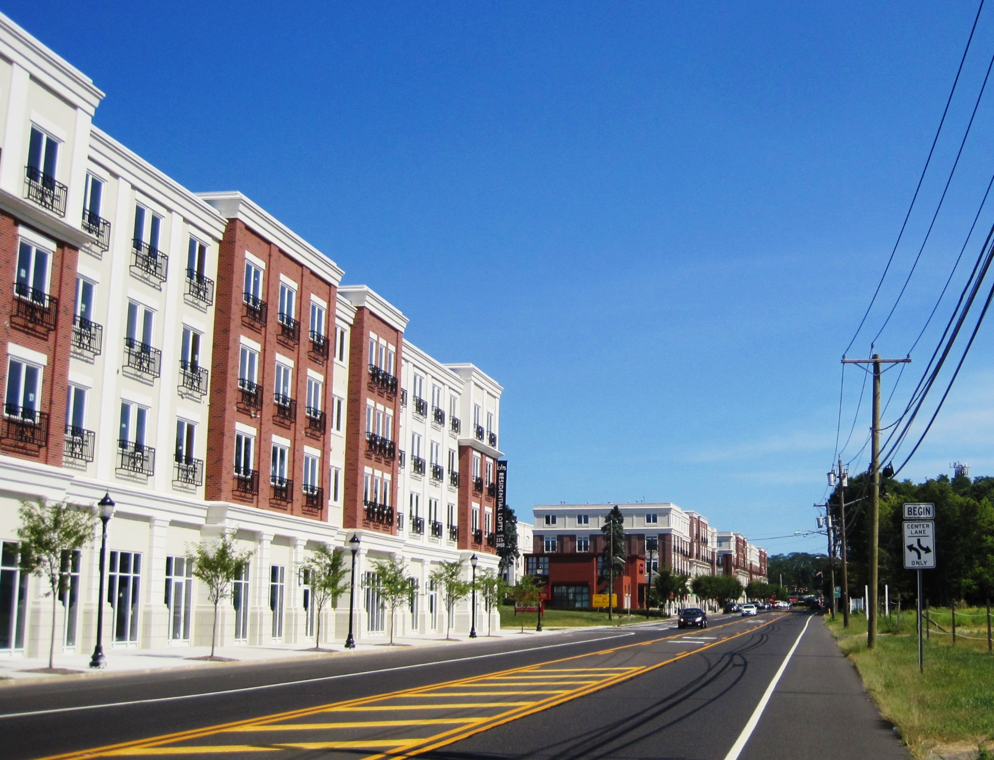 Photo of the Robbinsville Town Center in the census designated place of Robbinsville within Robbinsville Township, New Jersey. Photo taken along New Jersey Route 33 eastbound.